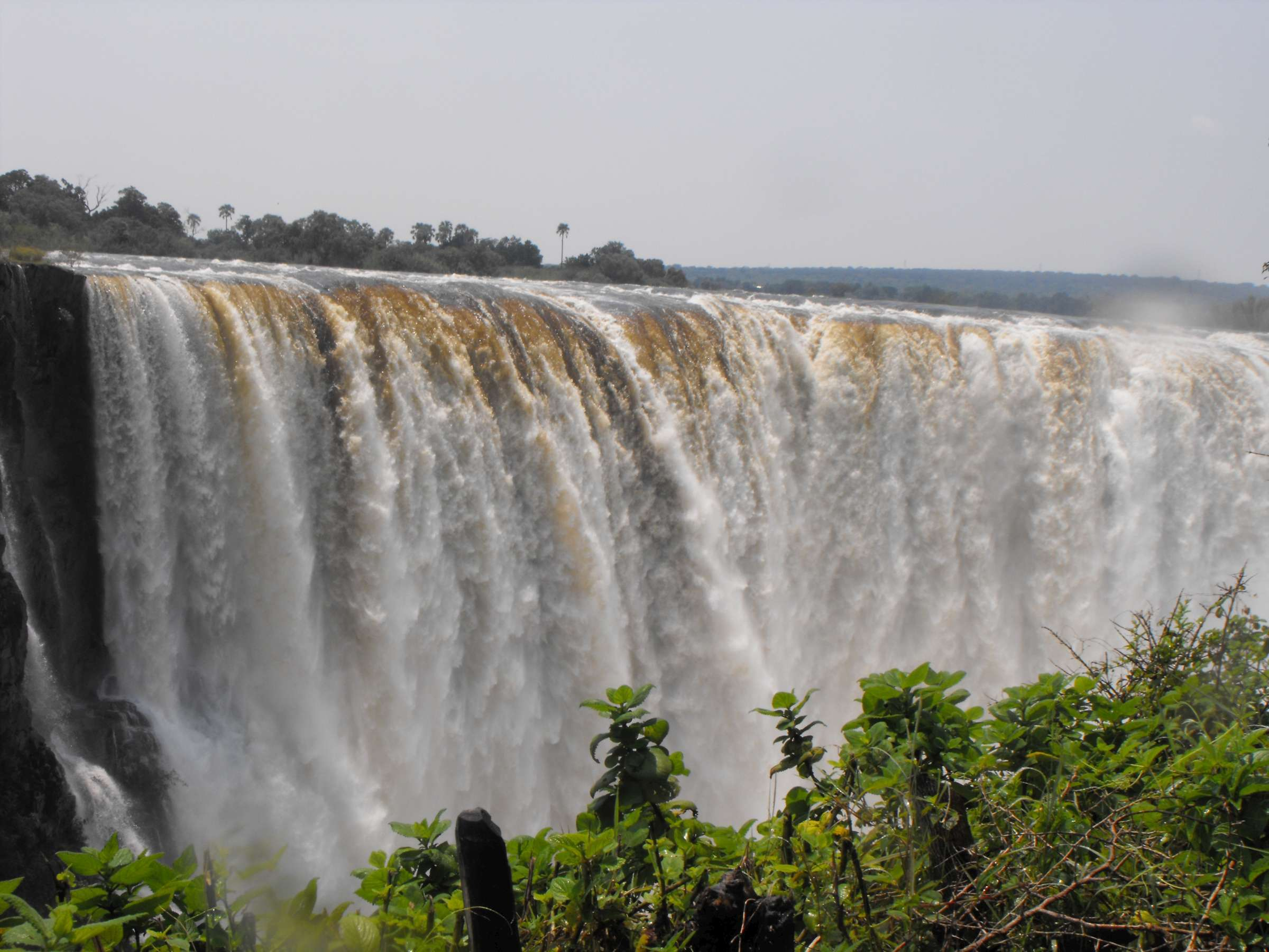 Victoria Falls